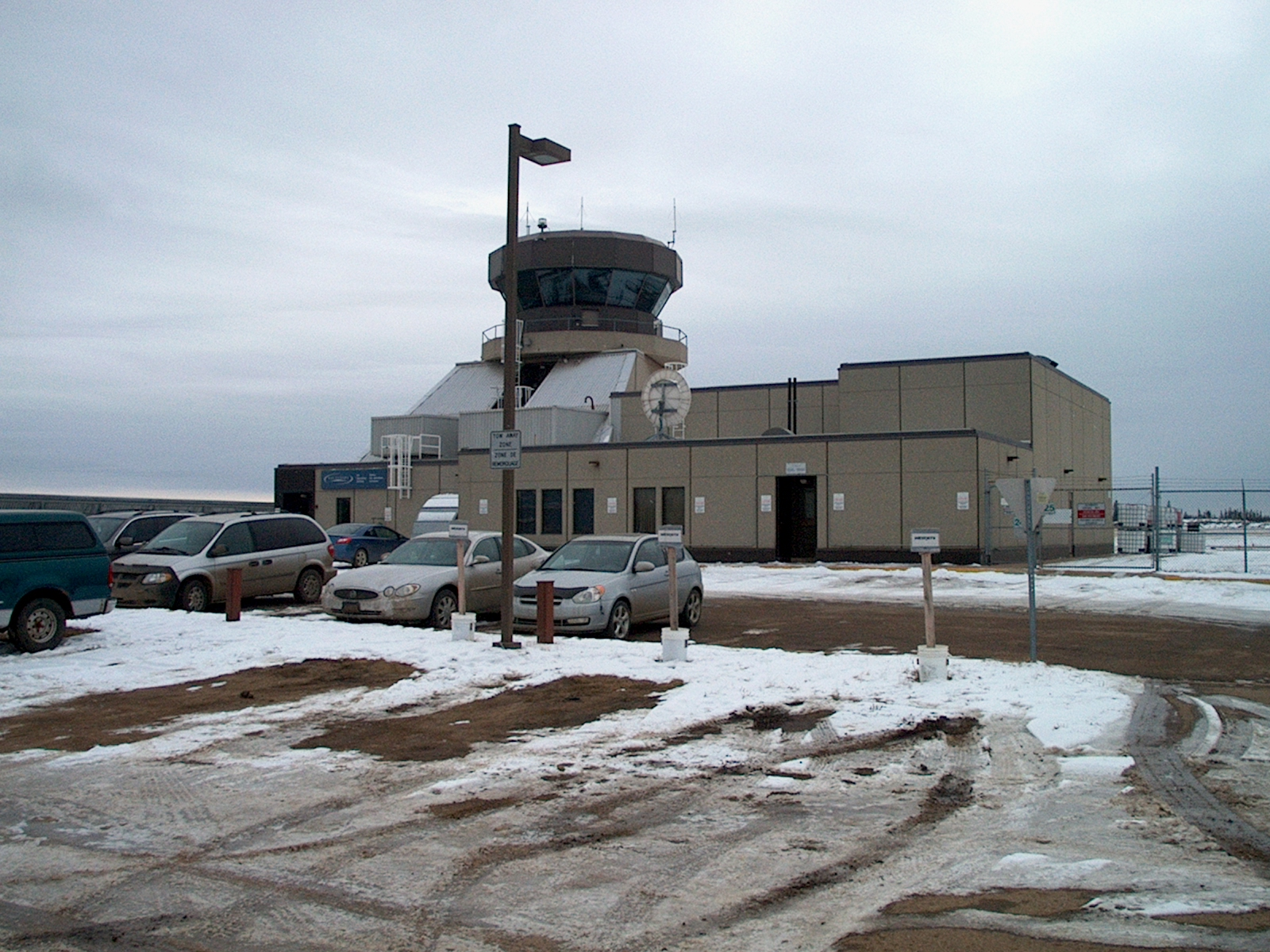 Fort McMurray, Alberta airport tower (YMM).